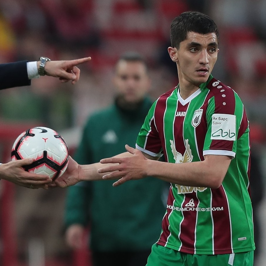 Ibragim Tsallagov with FC Rubin Kazan in a game against FC Spartak Moscow.